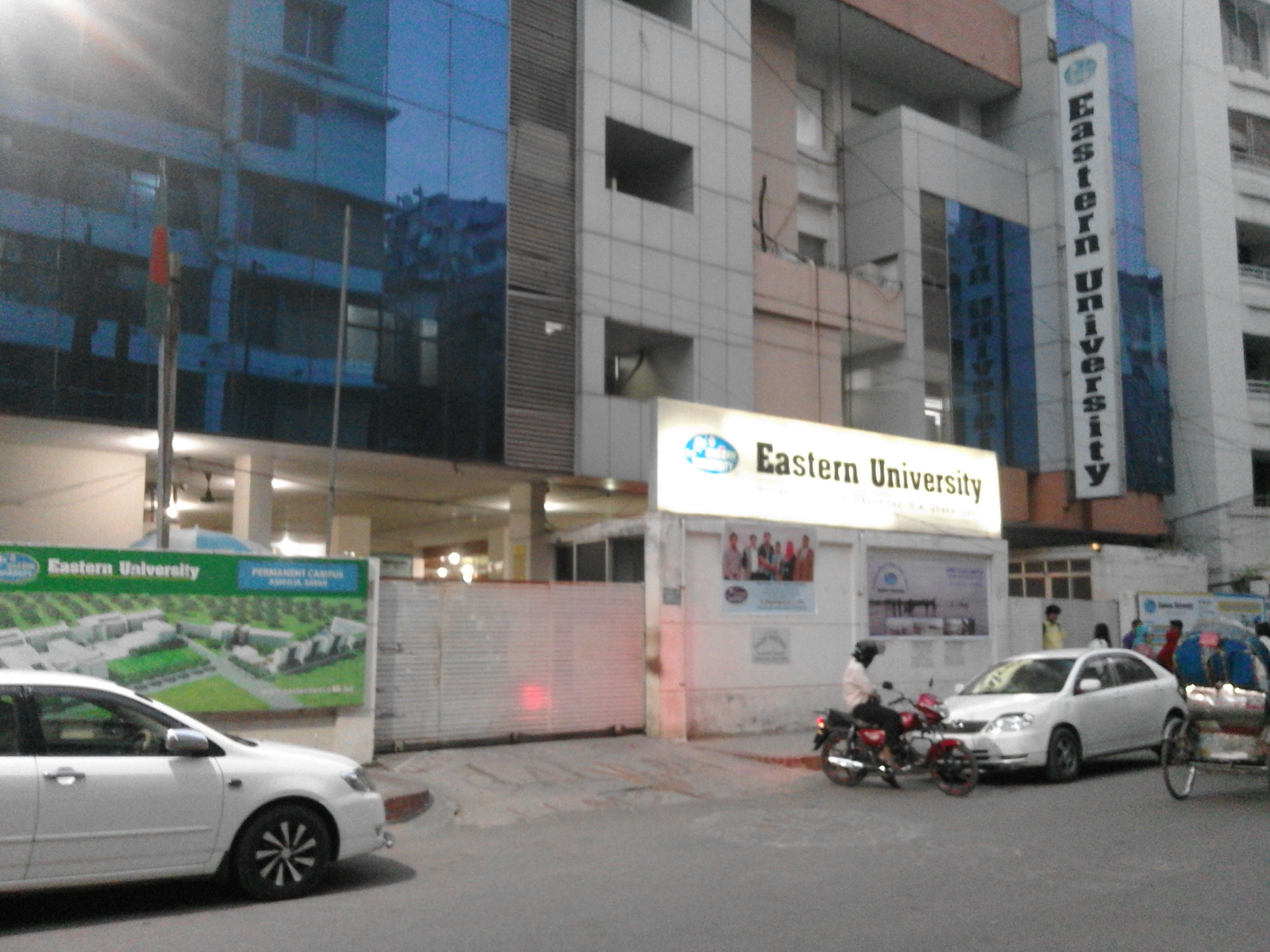 EasternUniBD